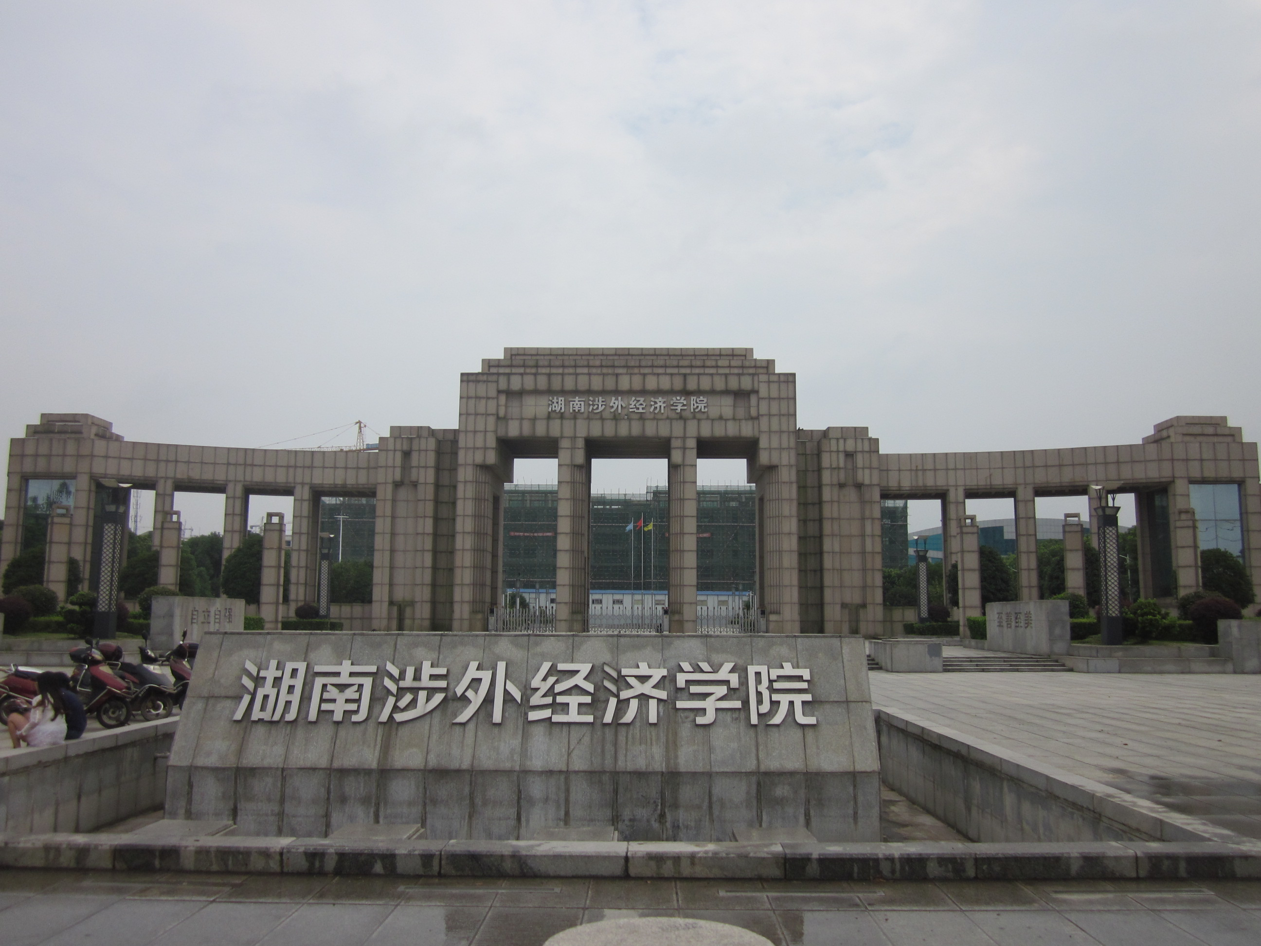 Hunan International Economics University (simplified